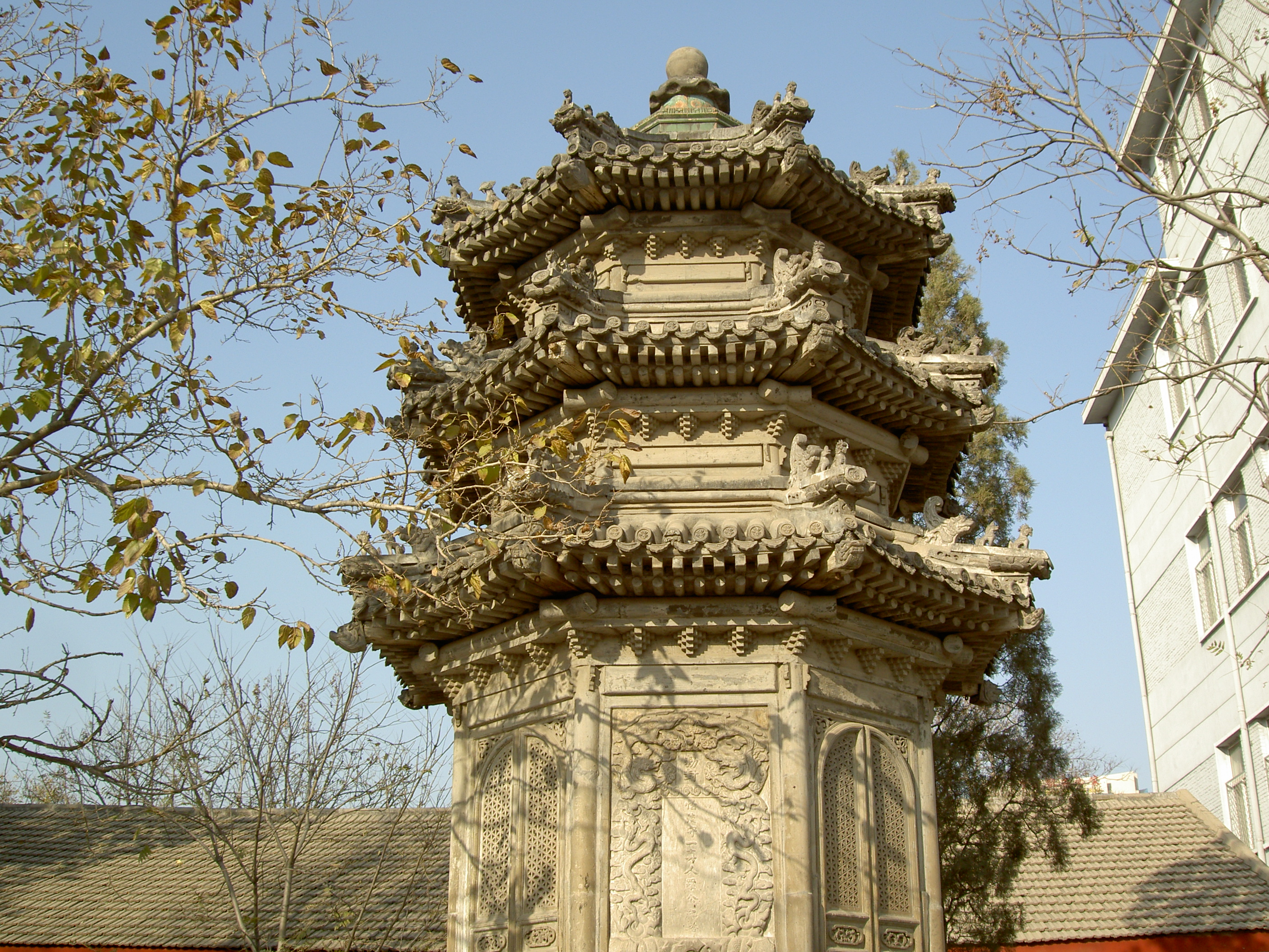 The White Cloud Temple in Beijing